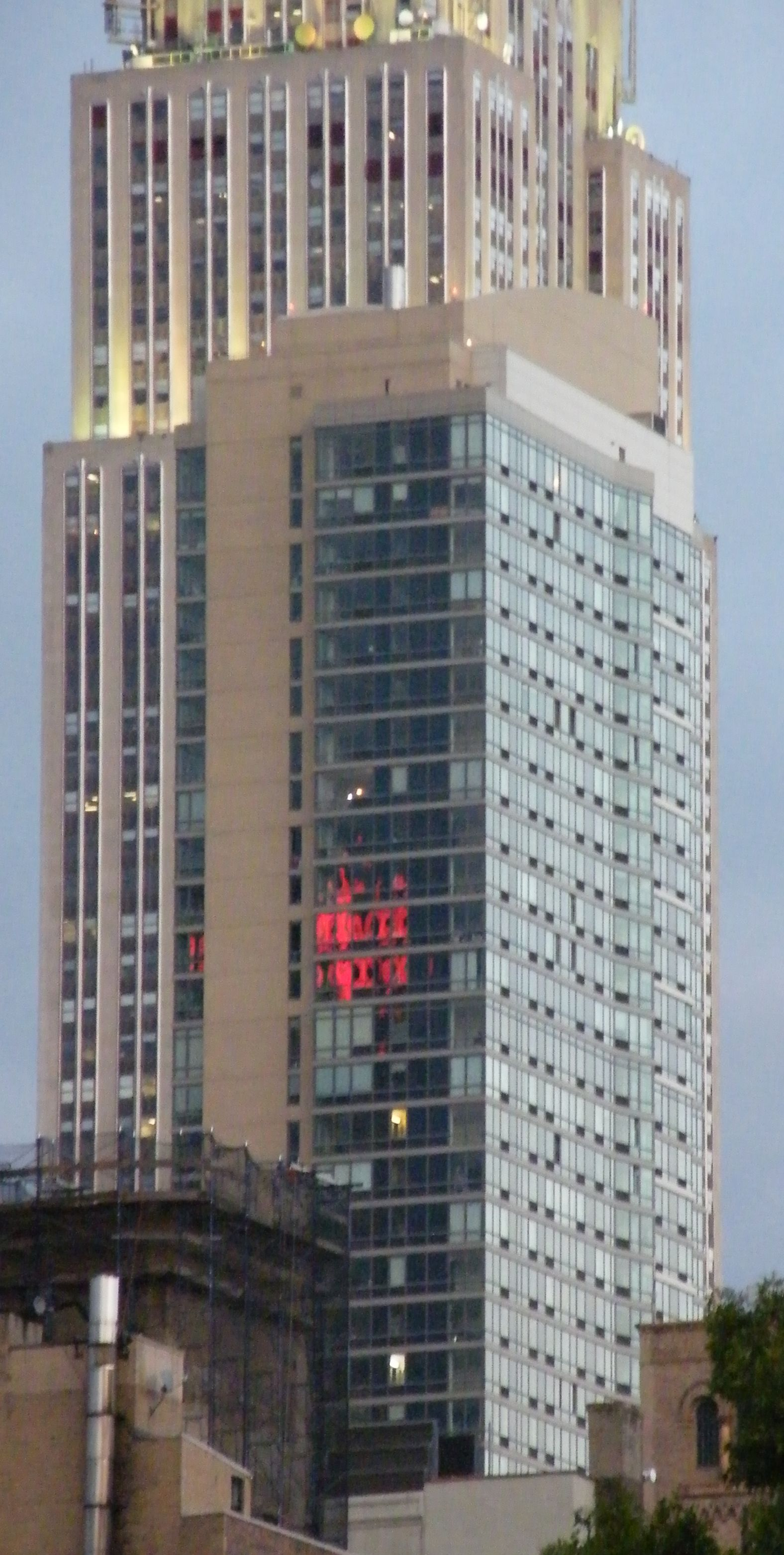 The Epic